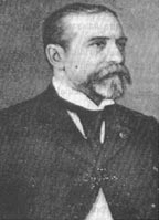 Barão Geraldo de Rezende, a Brazilian farmer and politician of the 19th century.